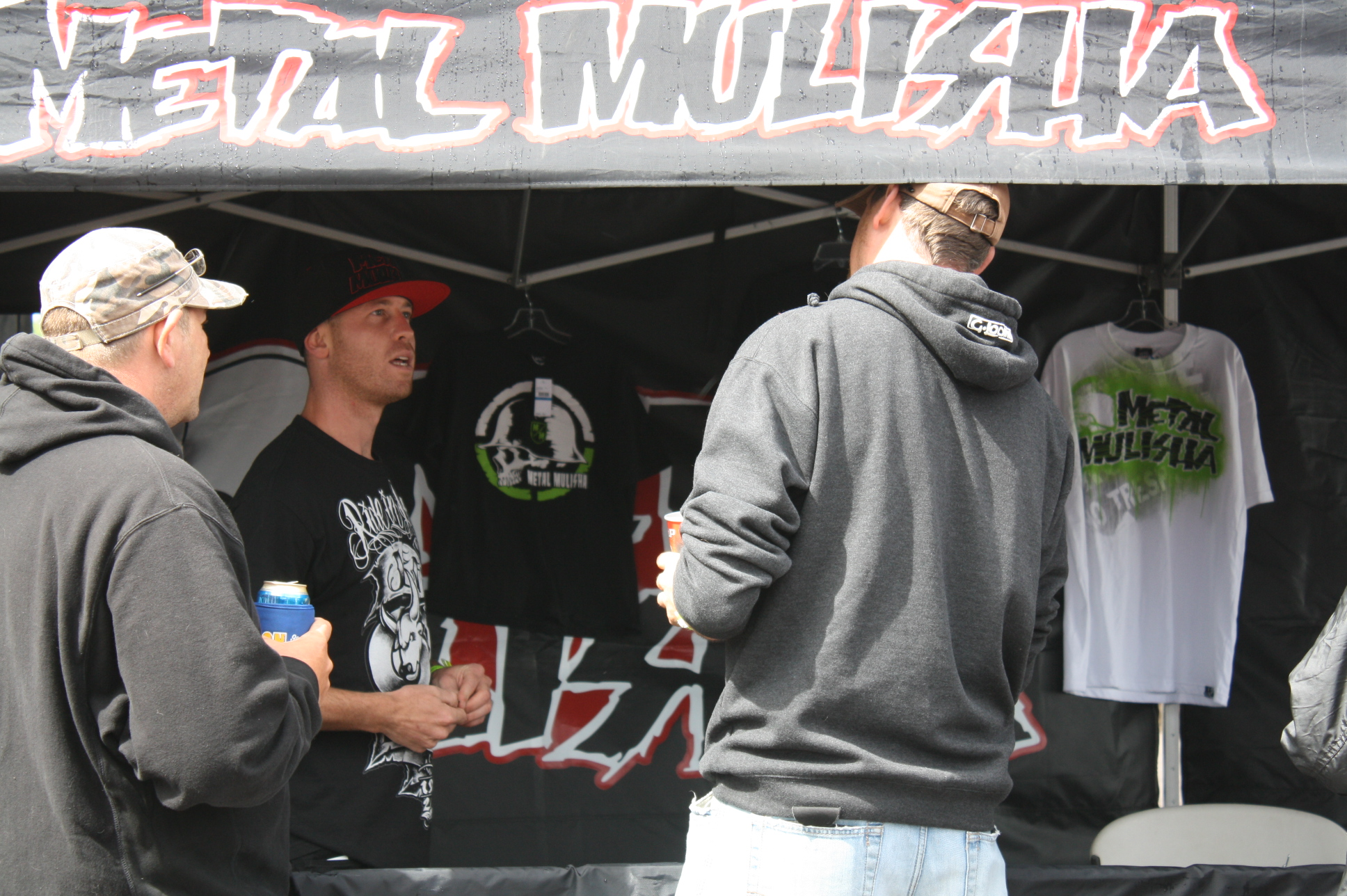 "Metal Mulisha" team member talking with fans at trailer.